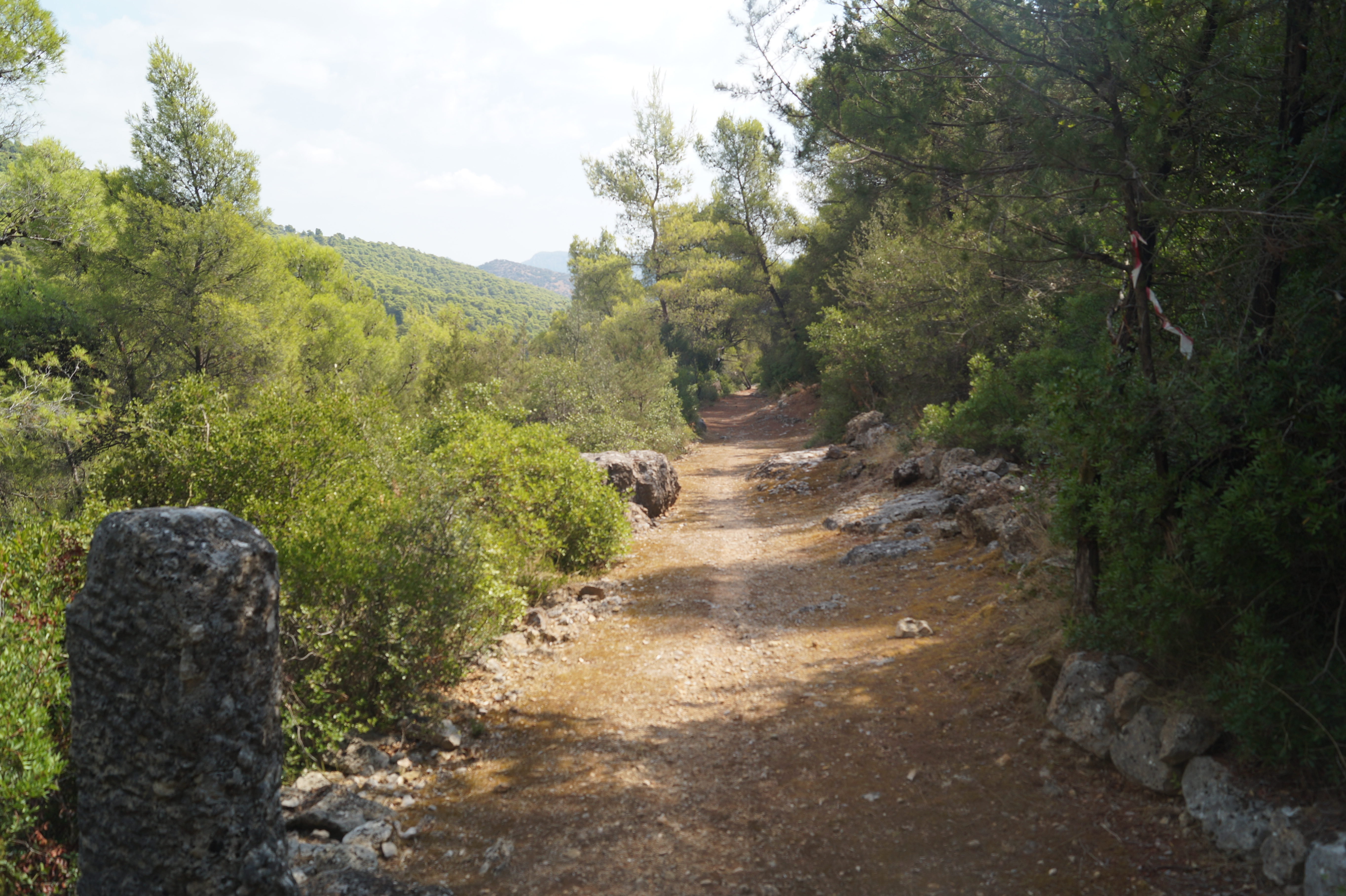 Agios Andreas, Epidaurus, Greece: Pilgrims' way of Epidaurus.